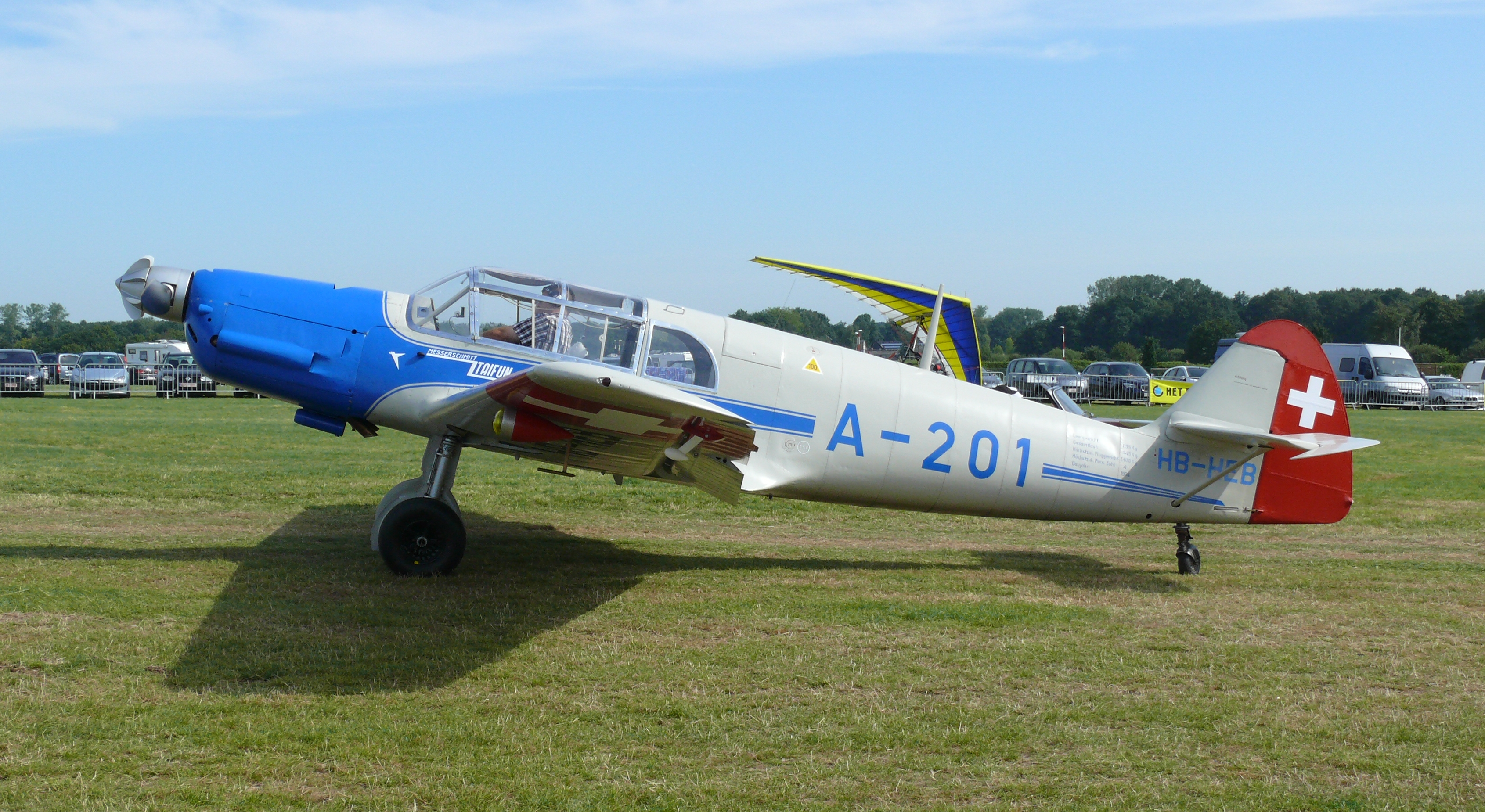 Messerschmitt Bf 108 B-1 Taifun, A- 201, HB-HEB (built 1938, c/n 1988) at the Fly In in Schaffen 2012. The Taifun was a German single-engine sports, training and touring aircraft developed by Bayerische Flugzeugwerke (Bavarian Aircraft Works). This airplane was bought by the Swiss Air Force in 1938 as part of a lot of 15. They were decommissioned in 1959. It was found in deplorable state, restored and made its first flight after restoration on 30 april 2011.